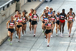 Elite women begin 2008 Chicago Marathon